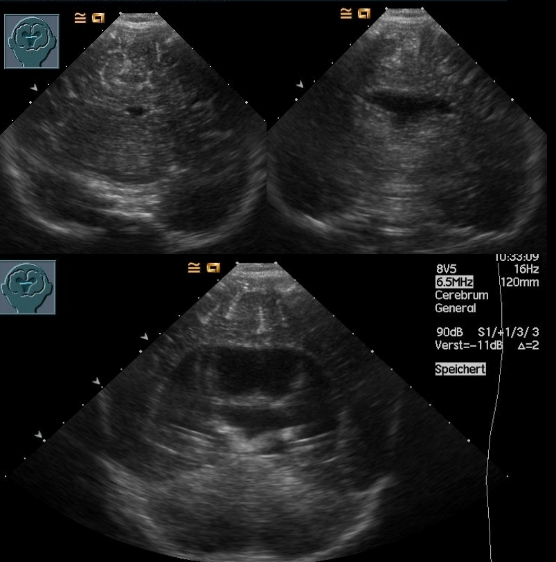 Sonography of holoprosencephaly in an 8 month old